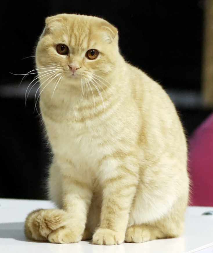 Scottish Fold Shorthair in a cat show. (Source )